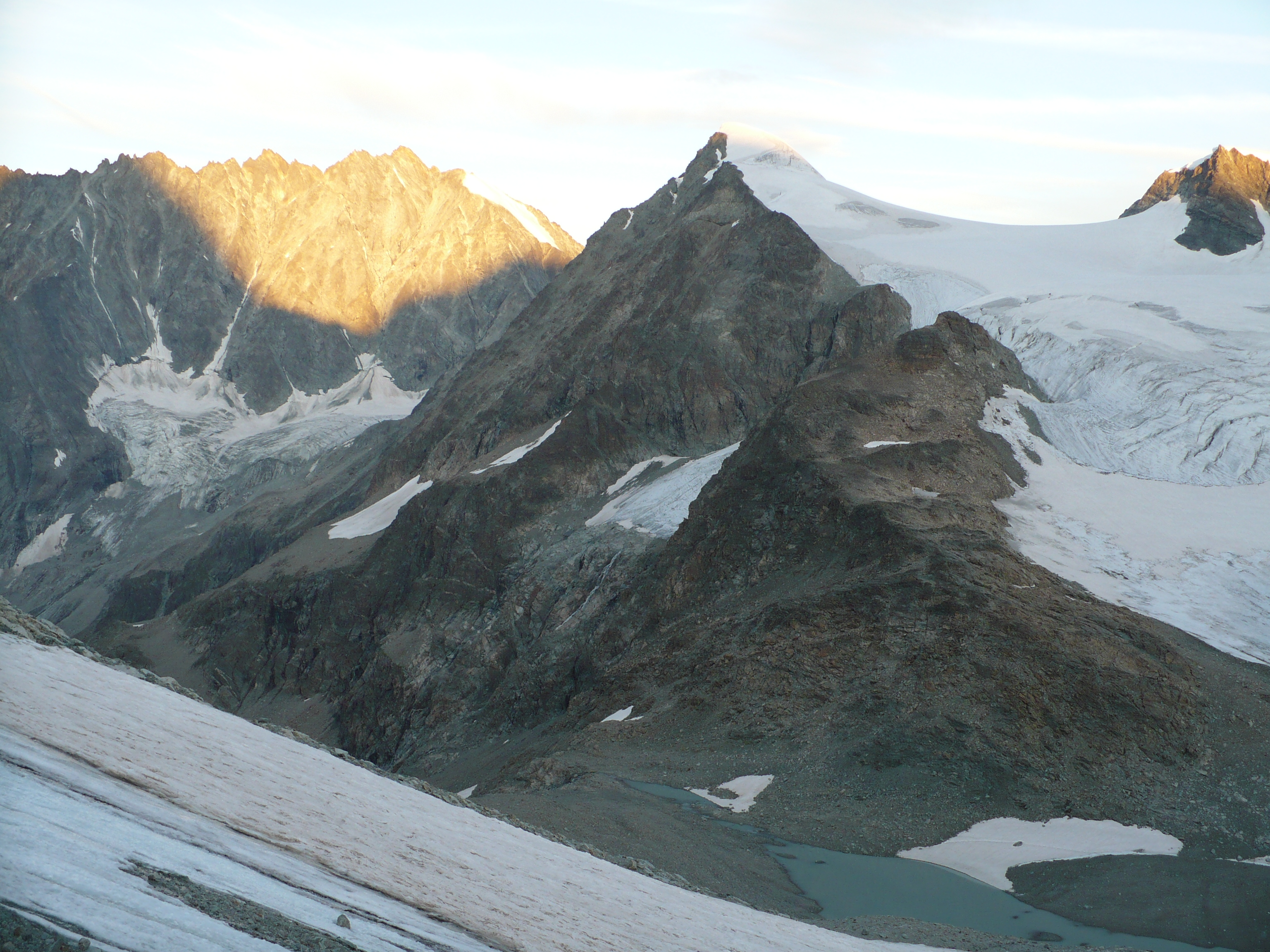 Becca d'Oren - Pennine Alps